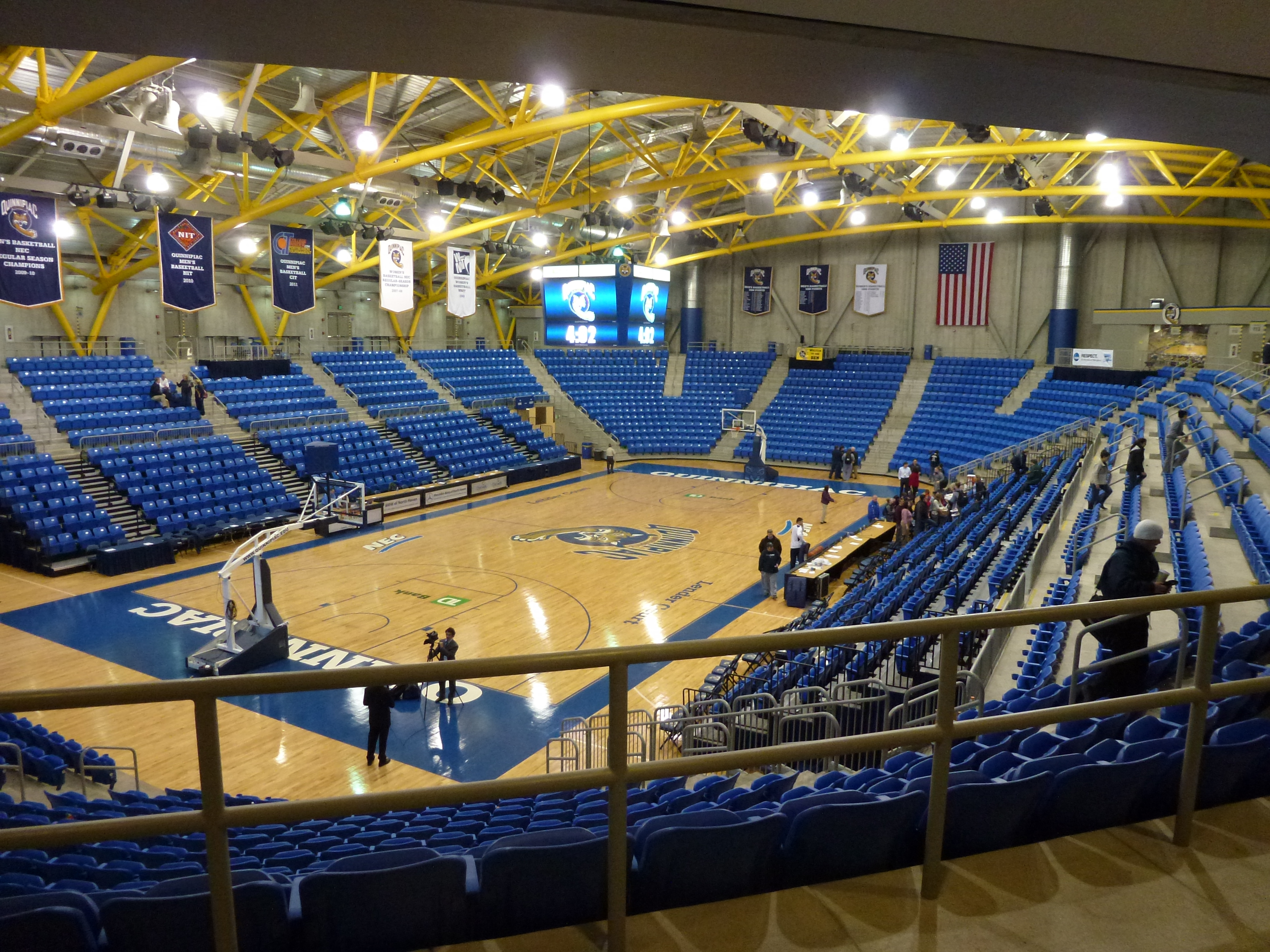 Basketball arena in the TD Bank Sports Center, on the Quinnipiac campus